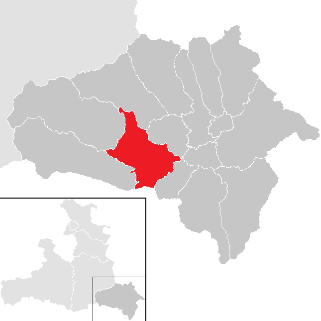 District Tamsweg